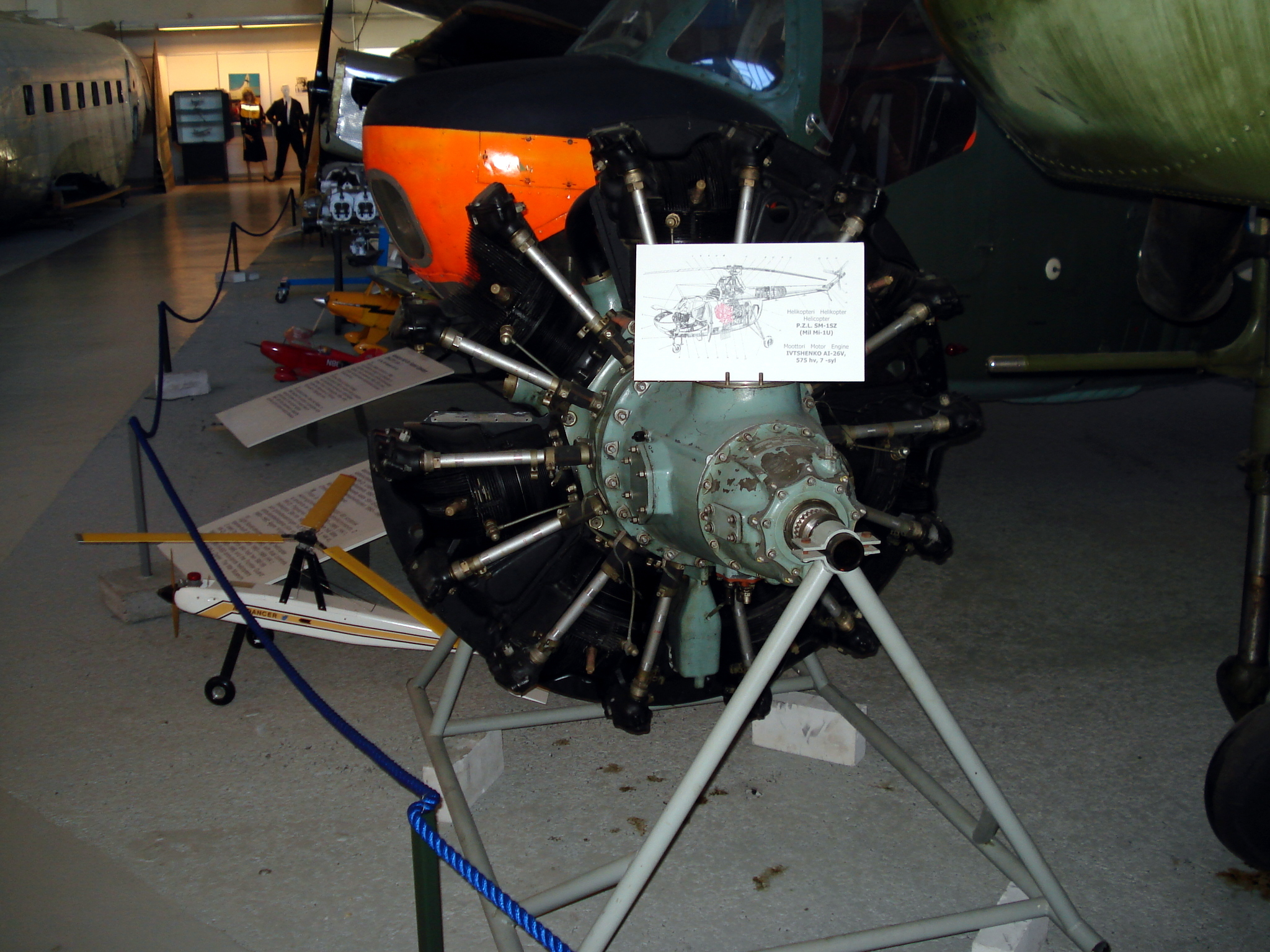 Polish-made Ivchenko AI-26V engine. This one powered the SM-1 (Mi-1) helicopter in Finnish service. Displayed in Finnish Aviation Museum. Source: Photo by me, User:Balcer.